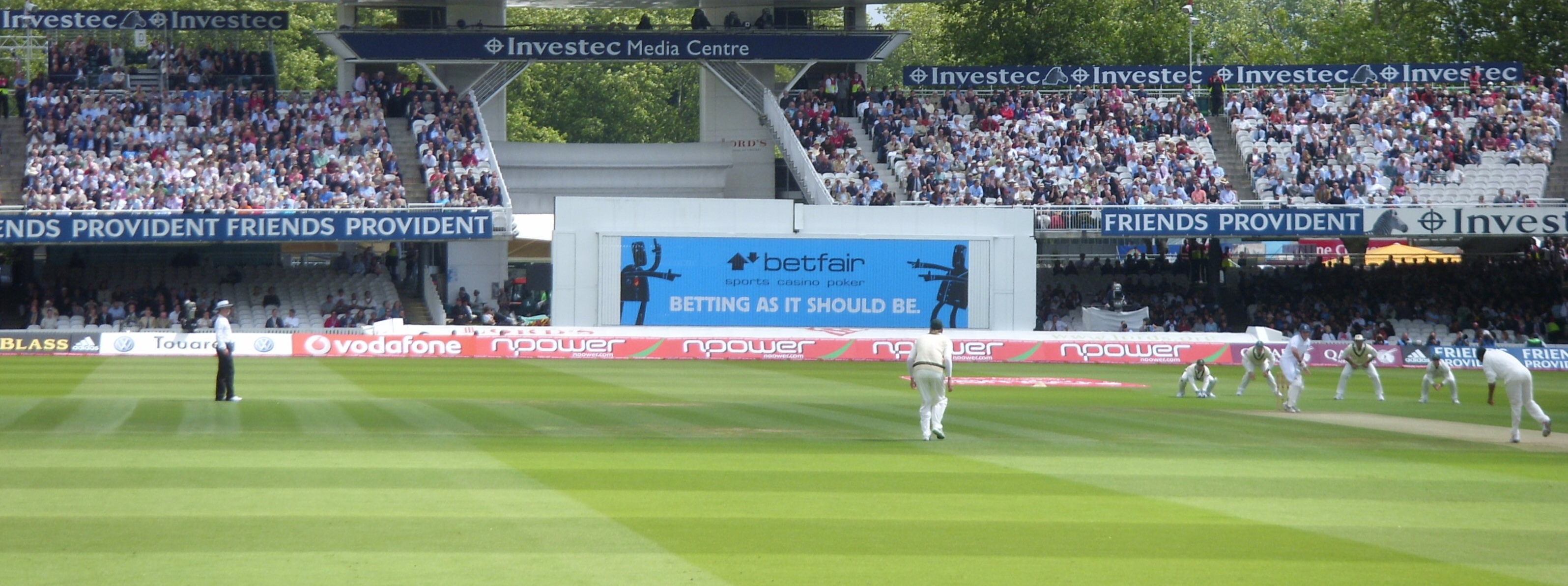 A cropped image of the pitch at Lord's Cricket Ground. Original image was of the media centre in the grounds.